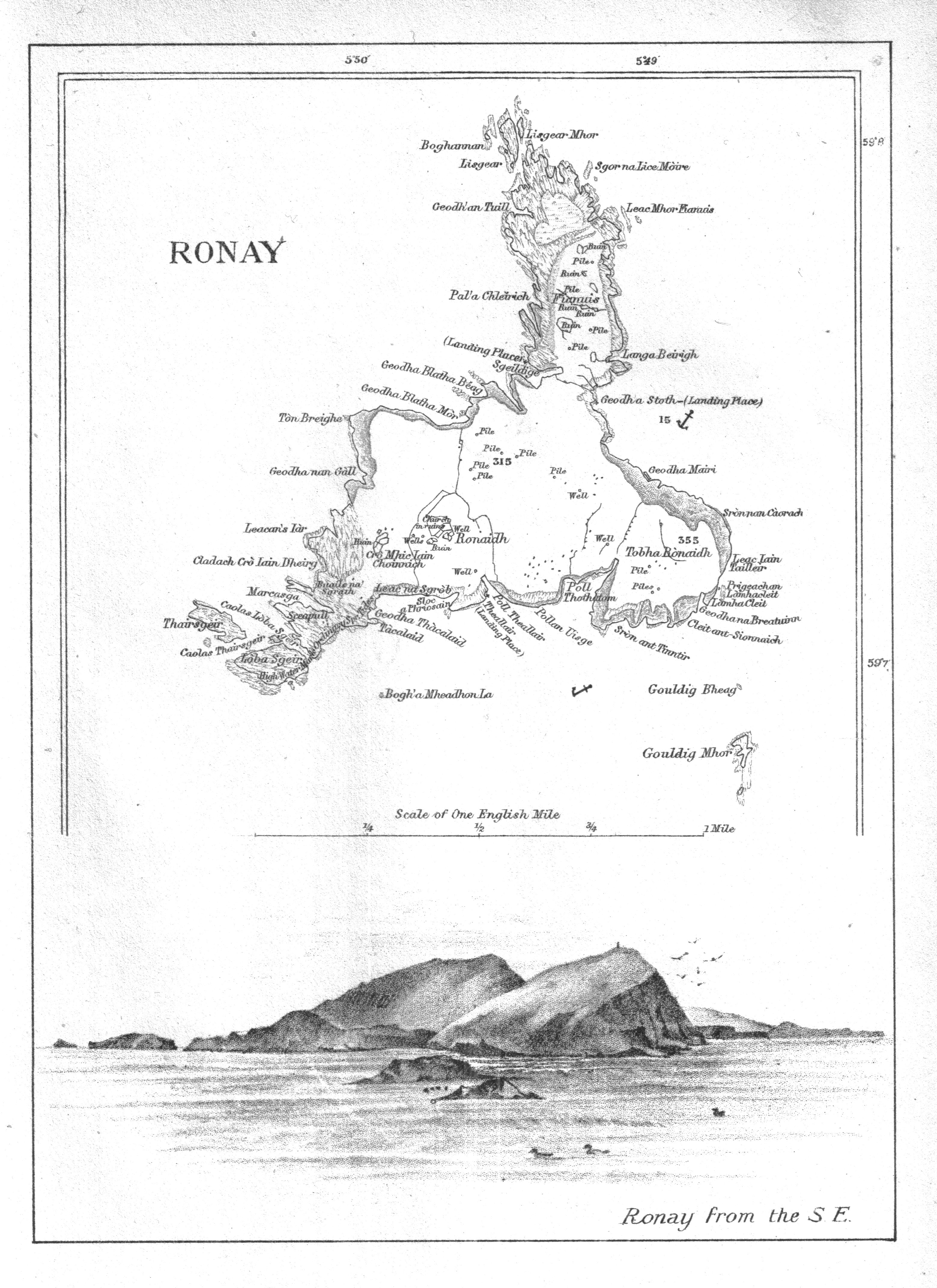 Ronay Island, Outer Hebrides, Scotland. [This is North Rona, the remote island 71 kilometres (44 mi) north of Lewis. It is not to be confused with Ronay near North Uist.]